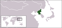 Location map for North Korea; Originally created for English Wikipedia by User:Vardion.